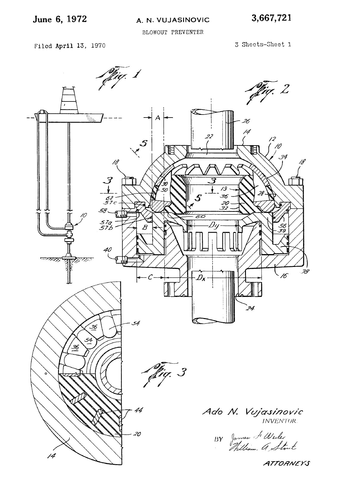 Patent Drawing of the Original Spherical Blowout Preventer, by The Rucker Company (Shaffer), U.S. Patent 3,667,721 (1972).